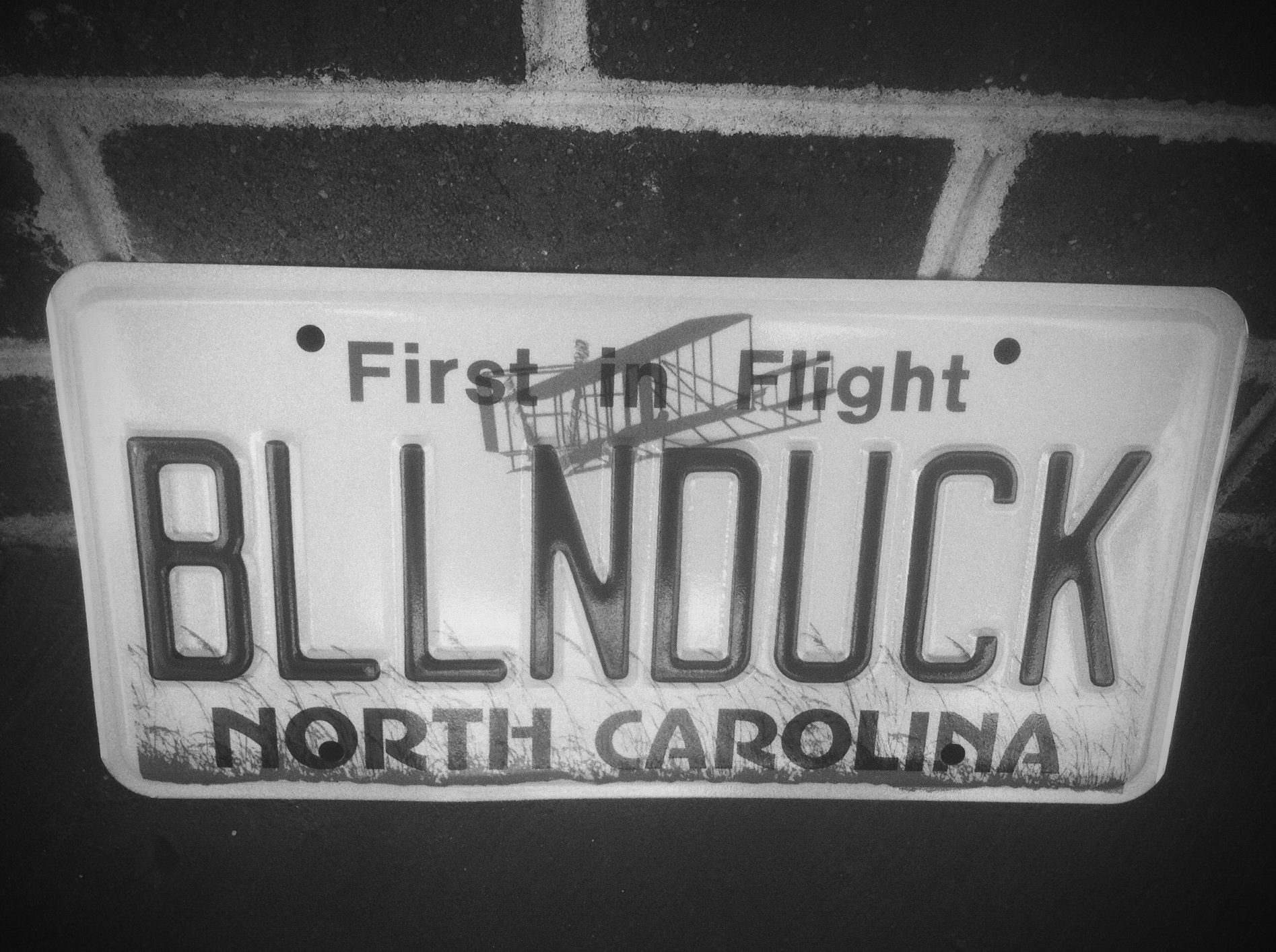 Balloonduck license plate